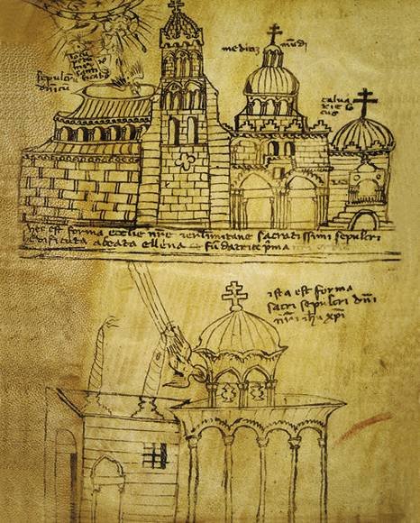 Church of the Holy Sepulchre - 1149